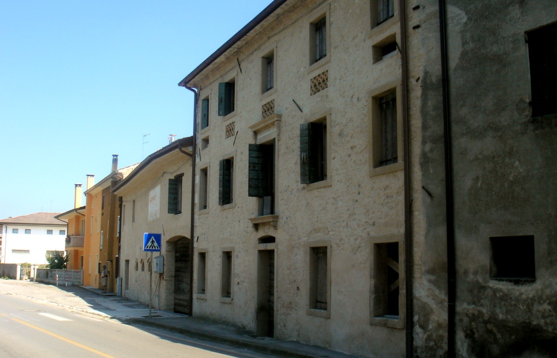 Roverbasso (TV)